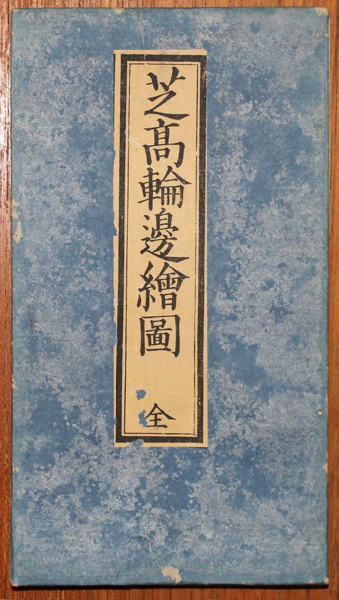 Folded map of Shiba. Edo